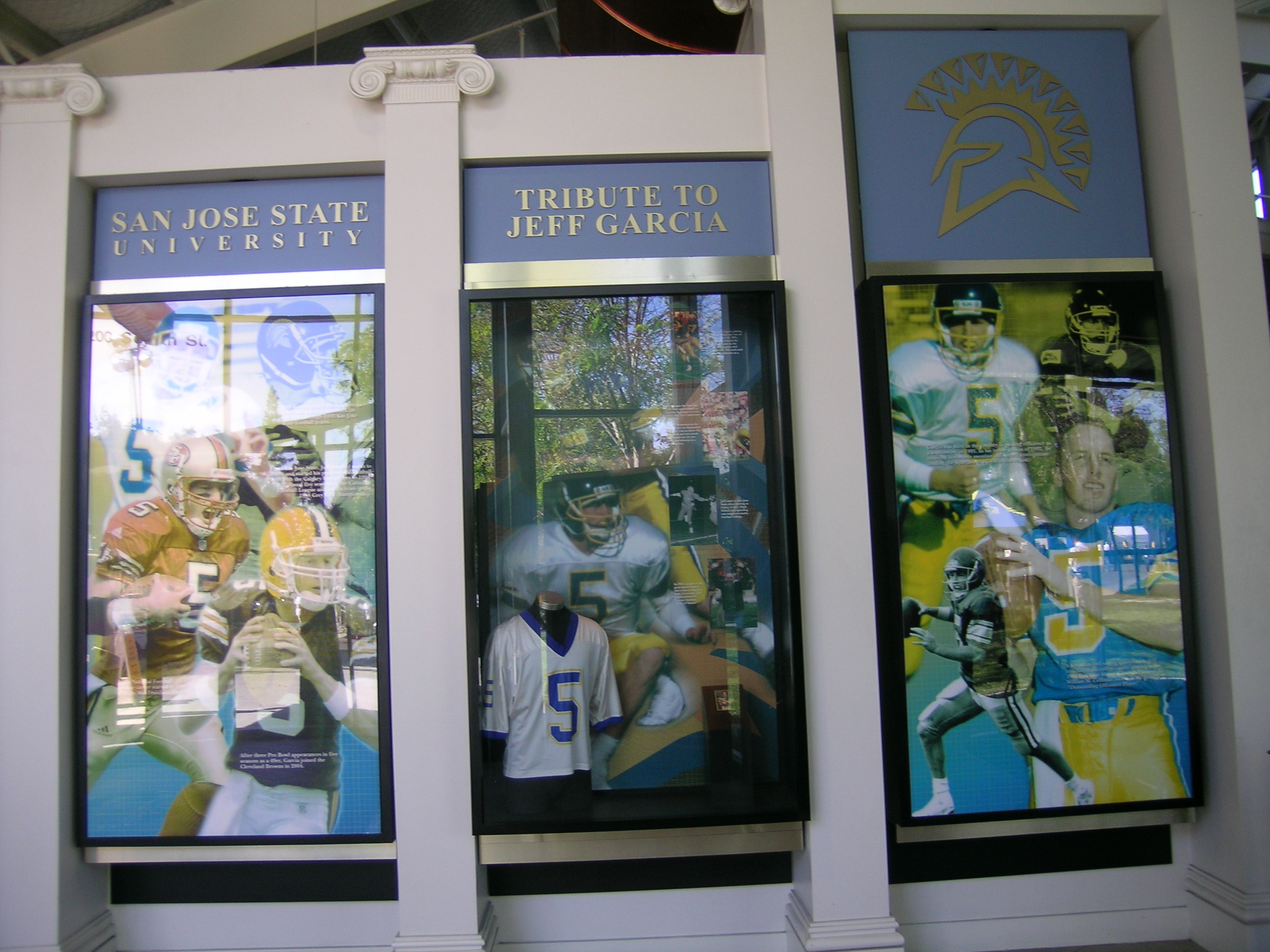 The tribute to Jeff Garcia at San Jose State University football training center